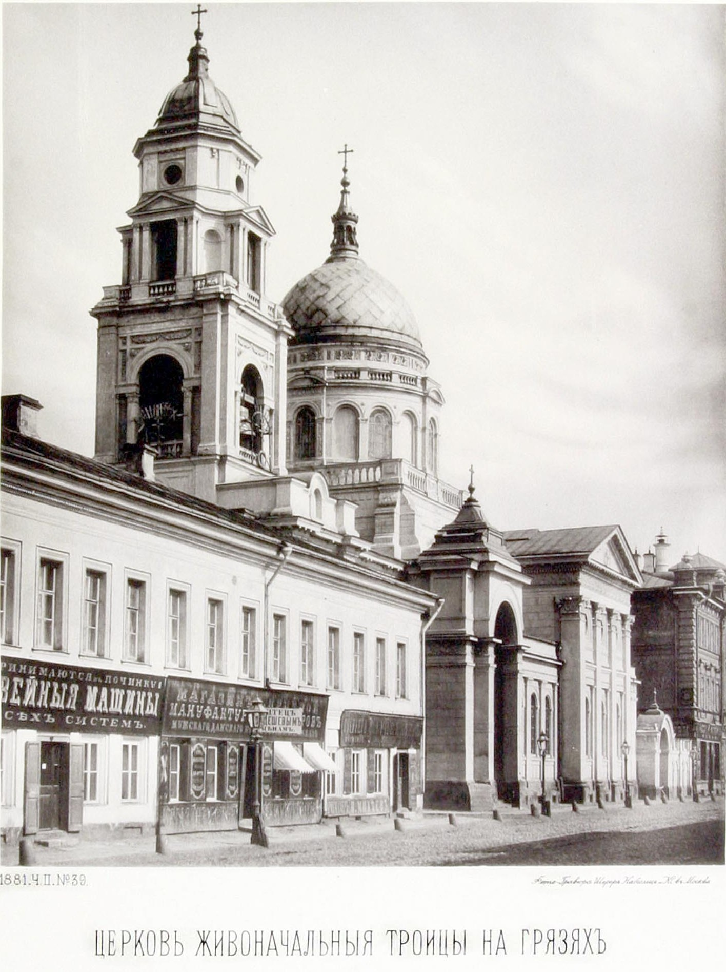 1882 photo, church of Trinity Na Gryazekh (Троица на Грязех), Moscow. Only the street-level portico survived to date.